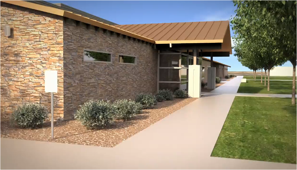 Rendering of Laveen Education Center design — proposed for Laveen, Arizona.